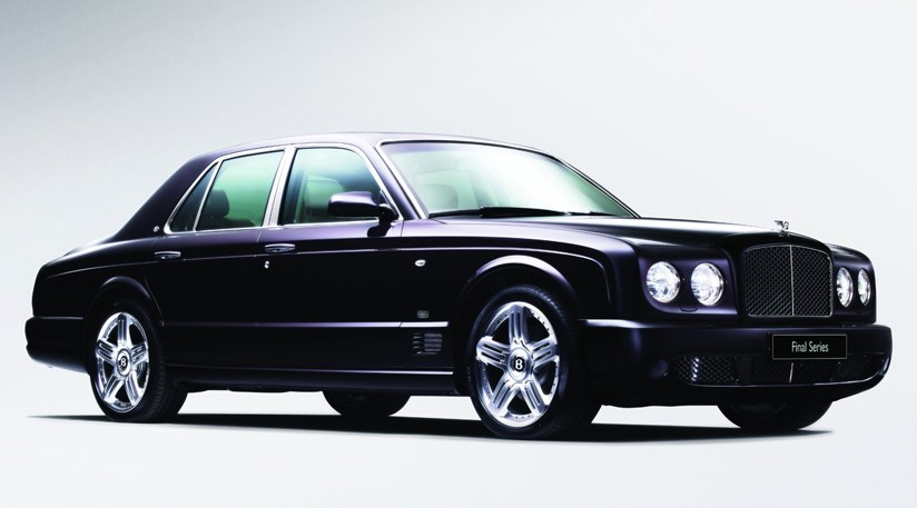 Picture of Bentley Arnage Final Series from the press book.